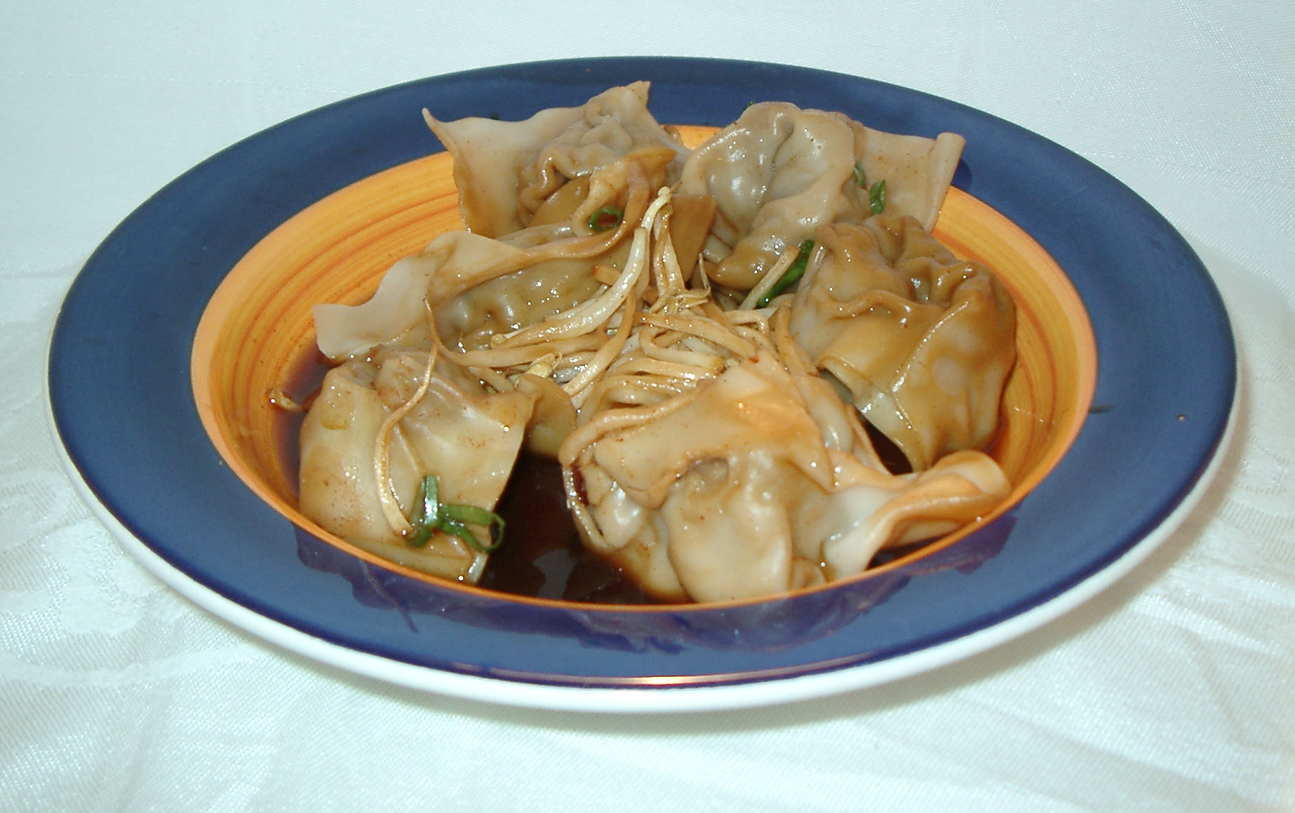 Cambridge, Massachusetts, USA: Suan La Chow Show from Mary Chung Restaurant (鍾園川菜館)